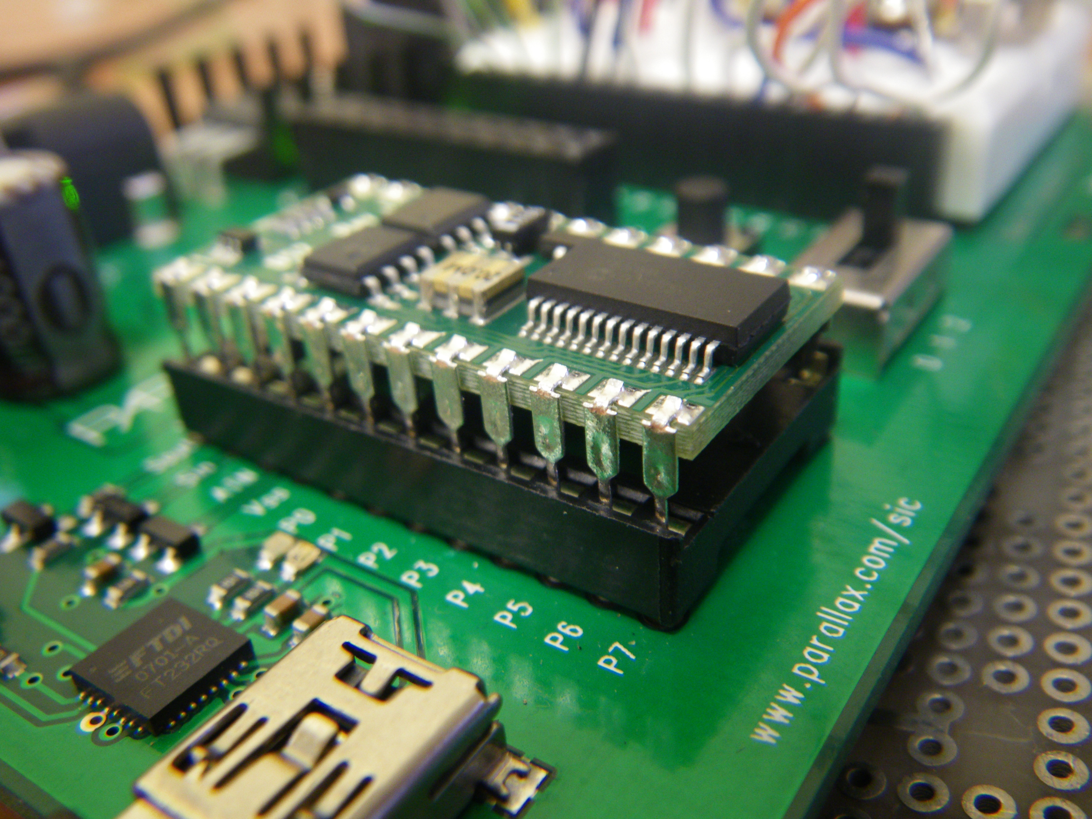 Basic stamp